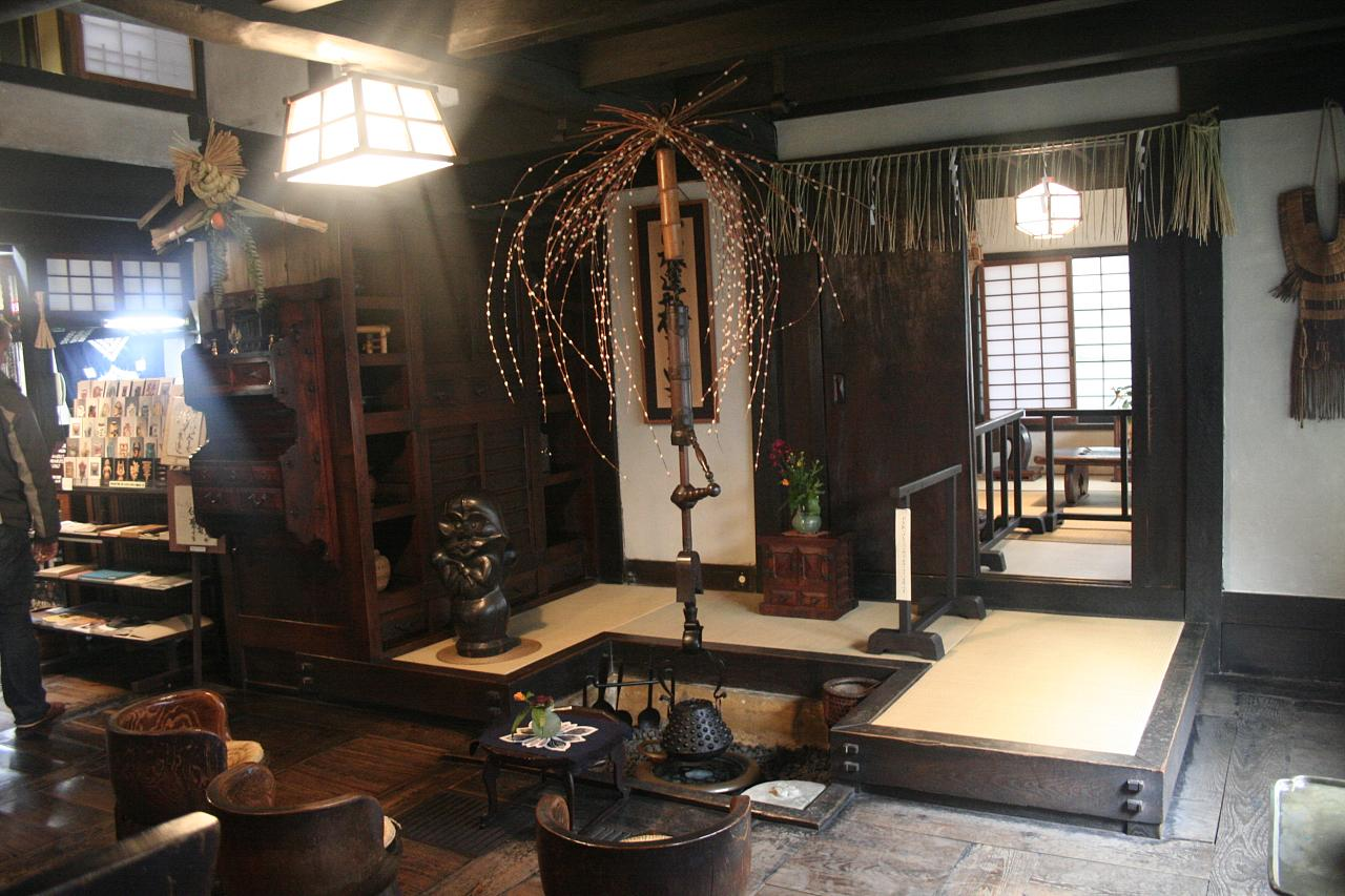 An interior view of Kawai Kanjiro (1890 - 1966)'s restored house in 2008.